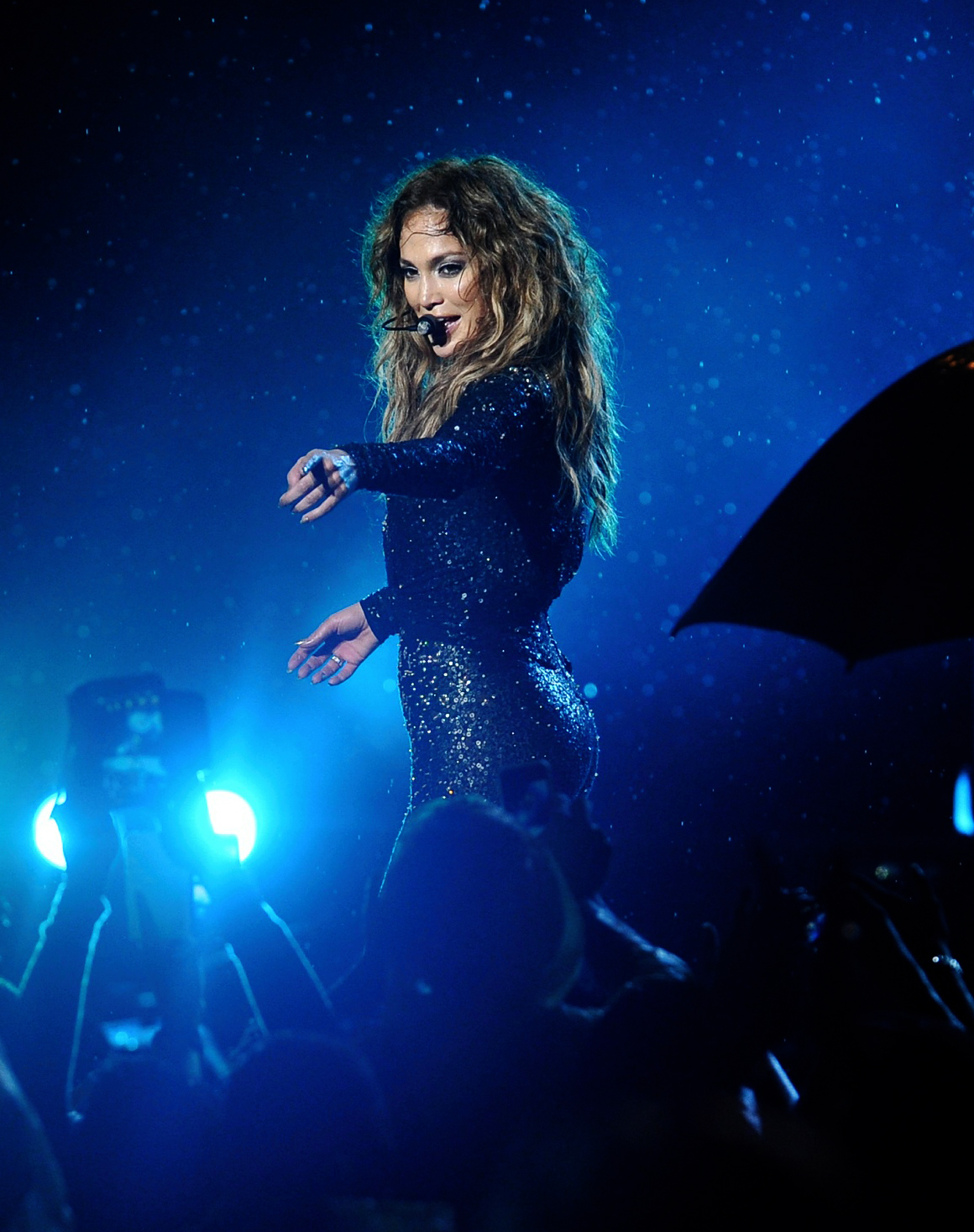 Kuala Lumpur, 03/12/2012 Jennifer Lopez Dance Again World Tour Live in Malaysia 2012 at Stadium Merdeka..Pic Firdaus Latif